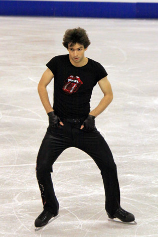 Alban Préaubert at the 2009 Skate Canada International.